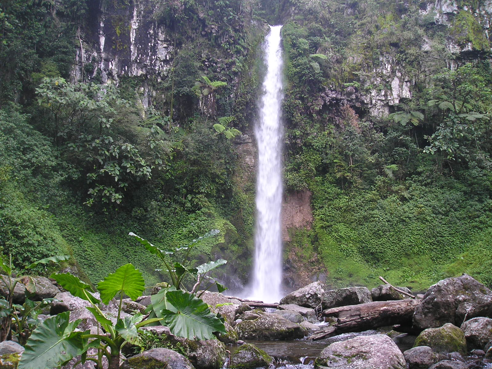 One of the falls found in the Kalatungan Mountain Range, Southern Bukidnon, Mindanao.